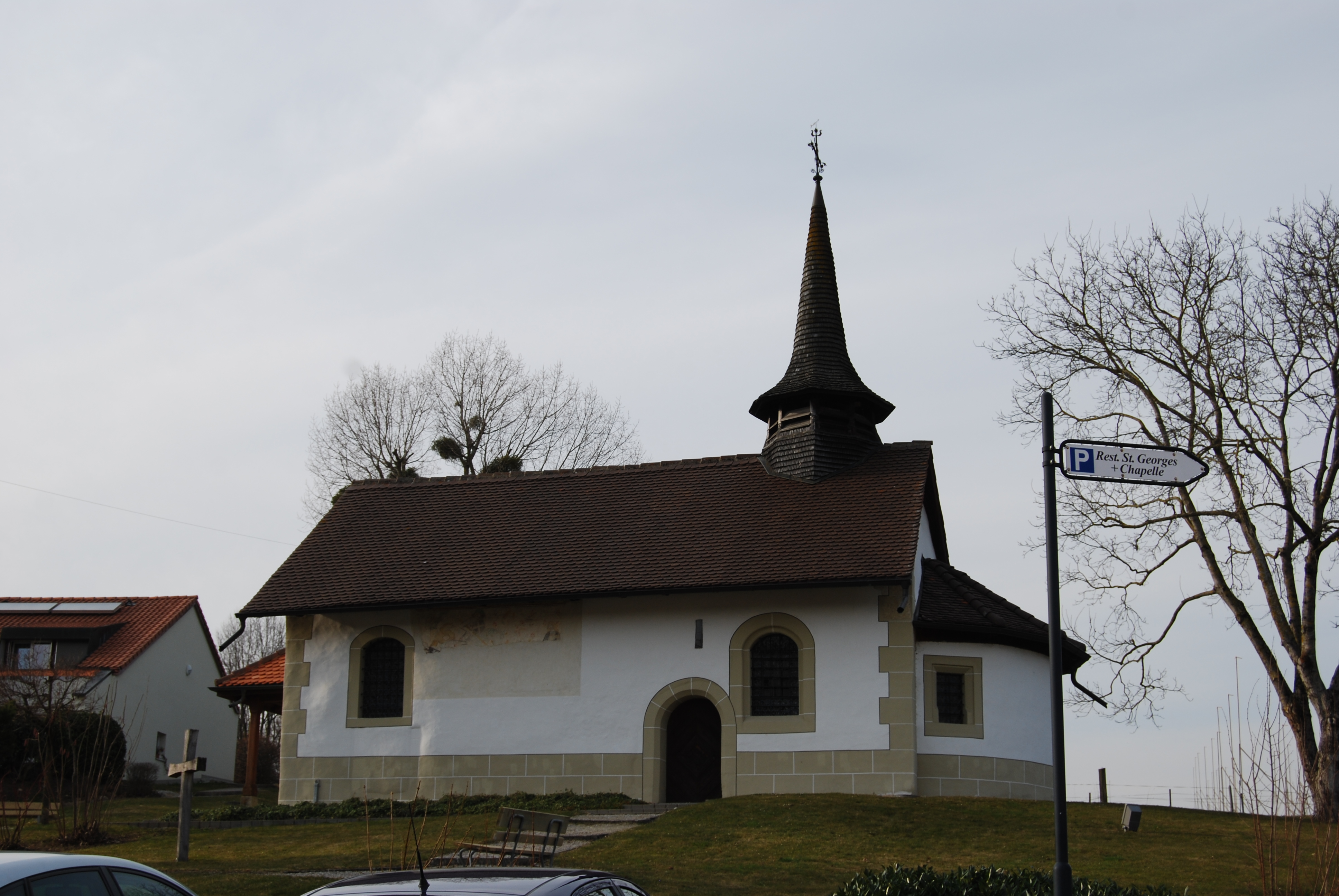 Chapel Saint-Georges at Corminboeuf, canton of Fribourg, Switzerland